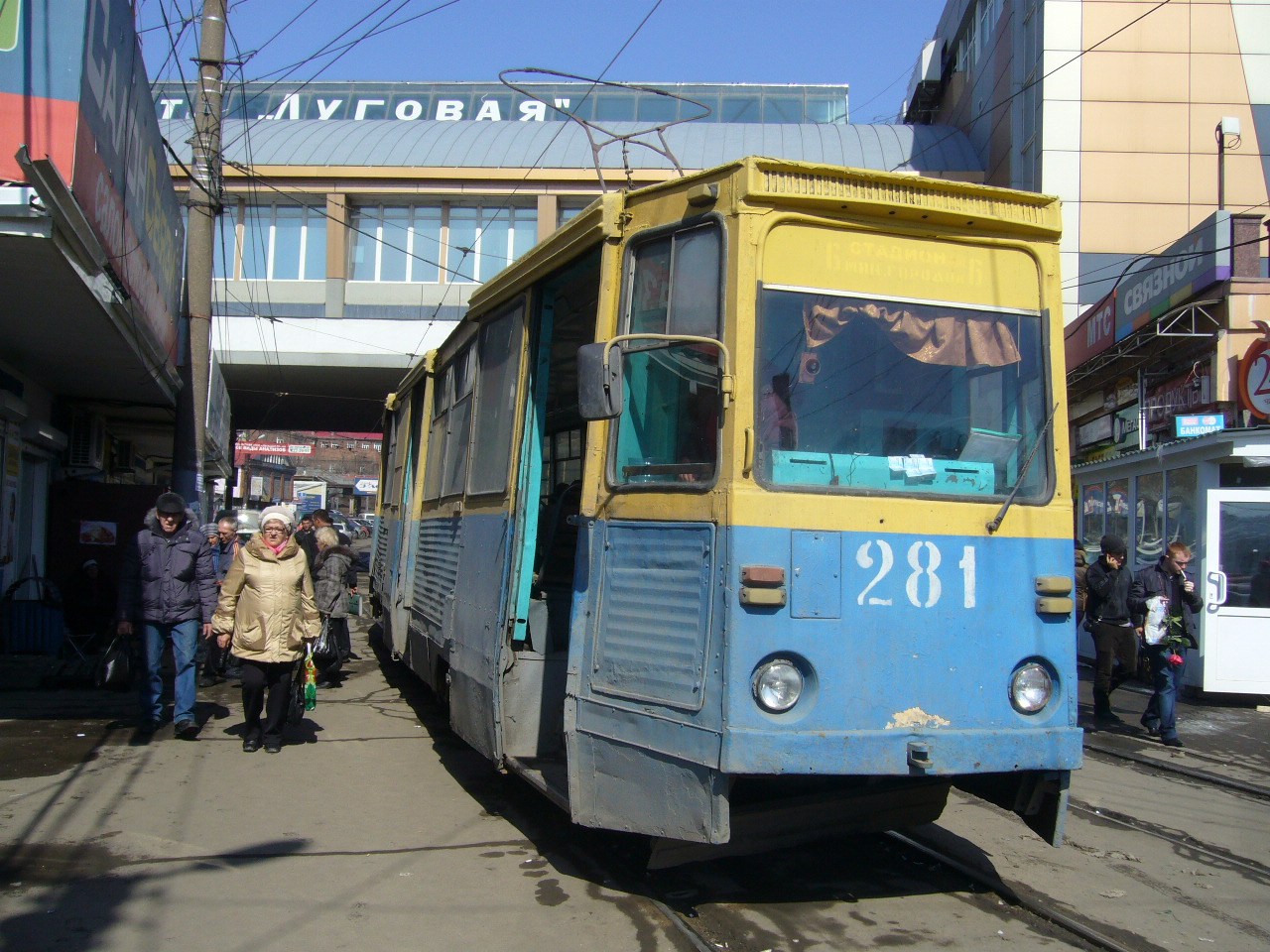 Tram KTM-5 № 281 (Vladivostok)